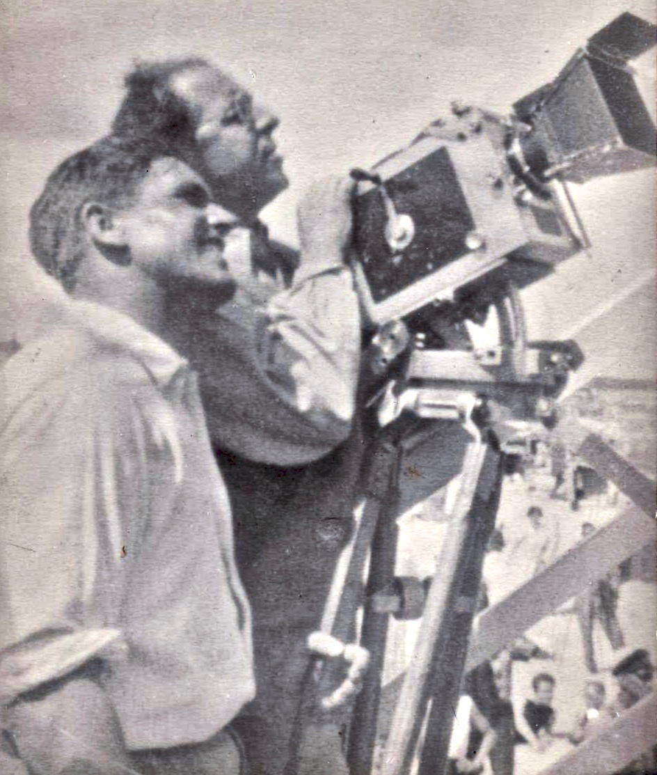 In the front German cinematographer Sepp Allgeier (1895–1968), behind him Georg Wilhelm Pabst (1885–1967) in 1929 doing shooting for the movie Diary of a Lost Girl, a novel by Margarete Böhme from 1905, starring Louise Brooks, Fritz Rasp, Kurt Gerron… along the beach of the Baltic Sea near Swinemuende, Germany.